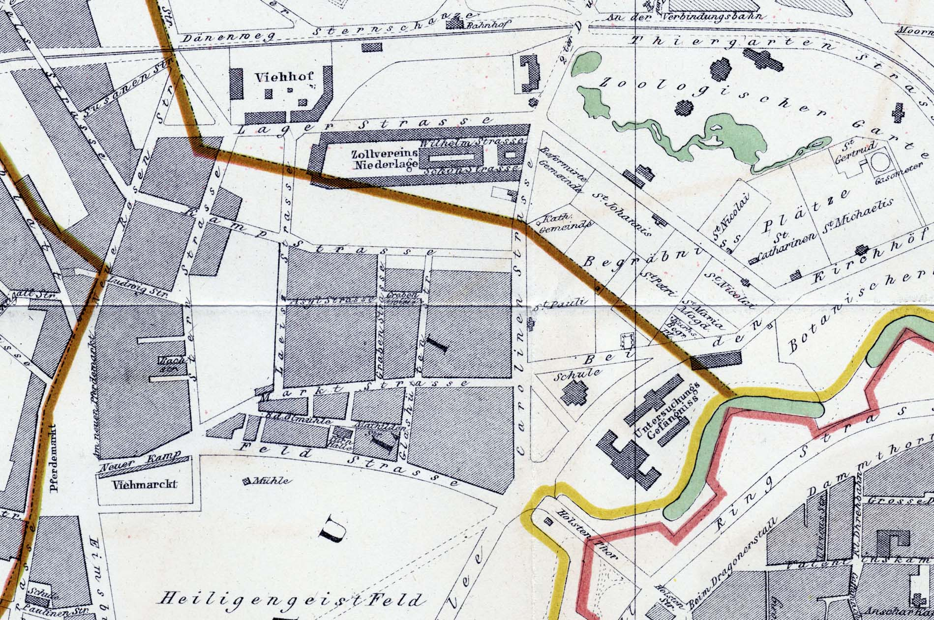 Karolinen-Quarter Hamburg an surroundings 1880